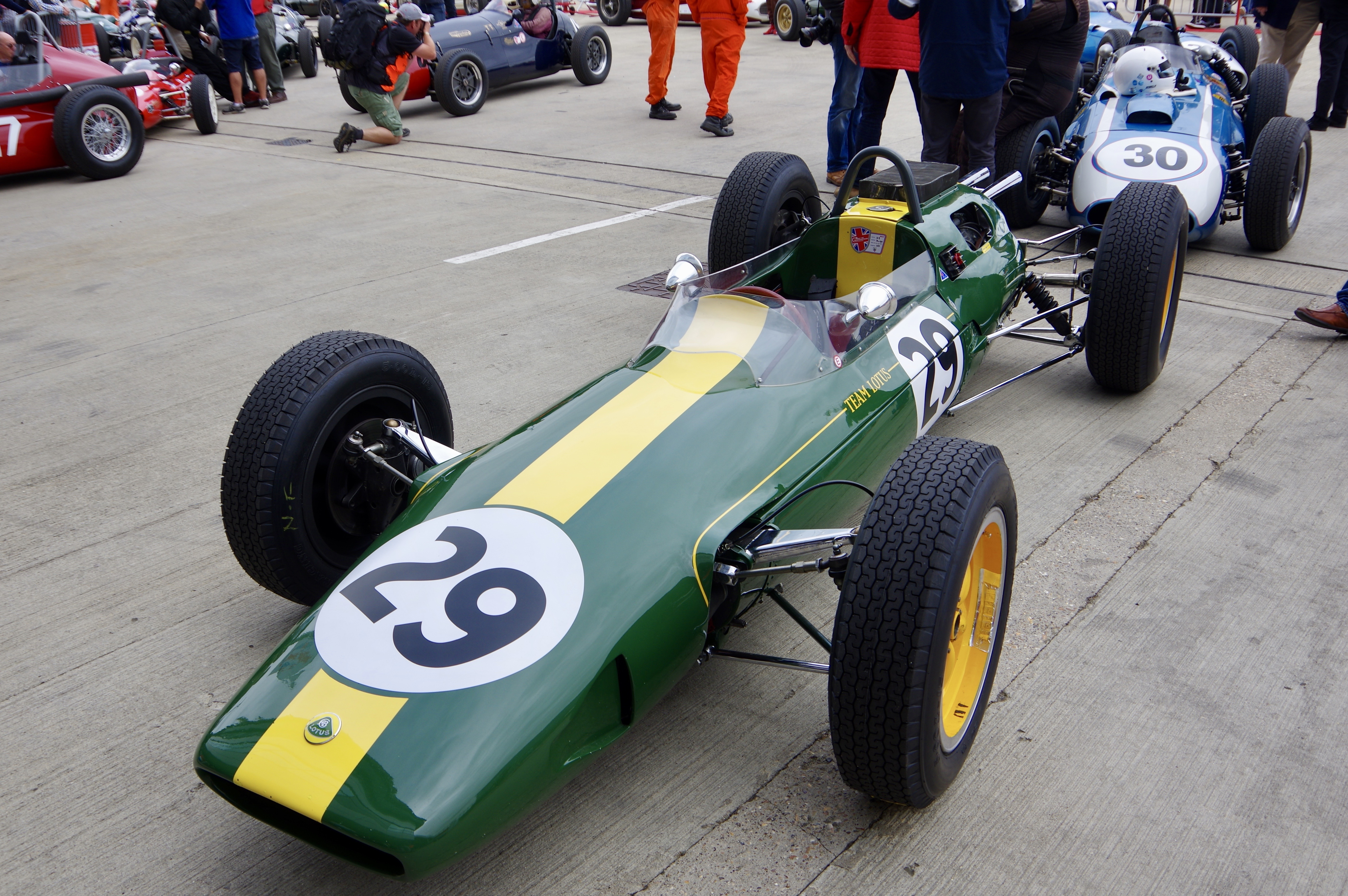 Lotus 25 2017 Silverstone Classic.